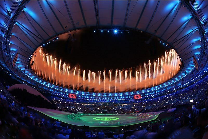 2016 Summer Olympics opening ceremony - photo news agency Tasnimnews